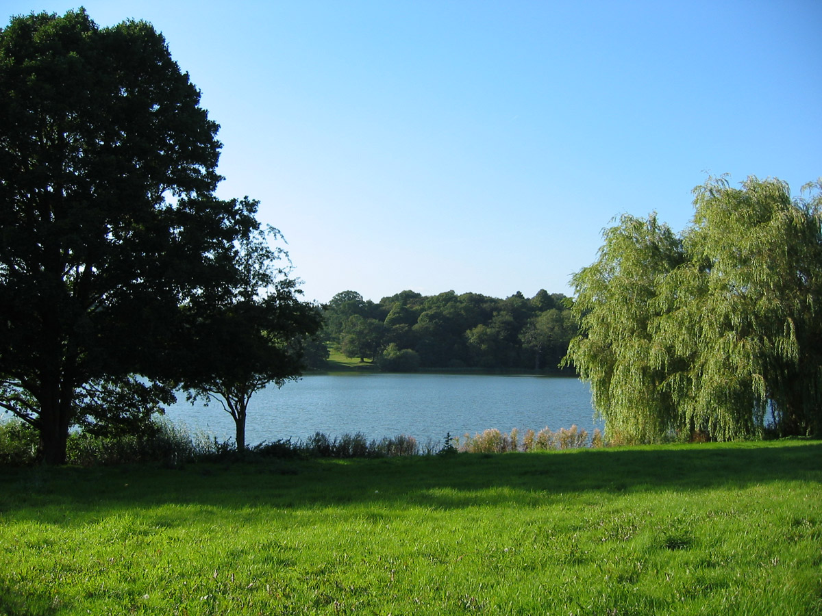 Comber Mere, by Combermere Abbey, Shropshire. Photograph by T Chalcraft